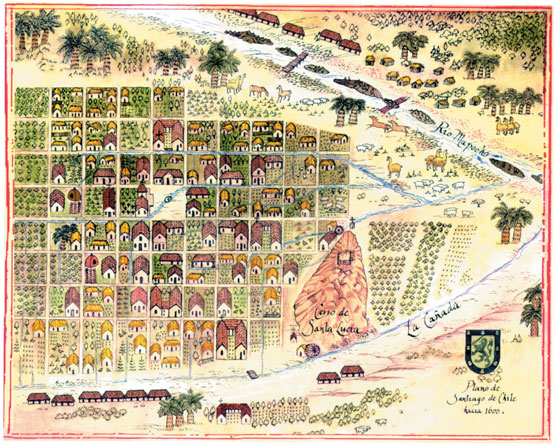 Map 1600 - 1610